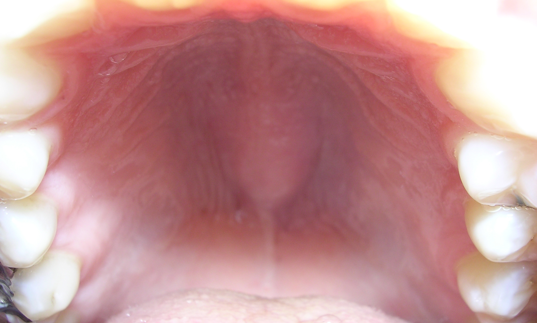 Photo taken of palatal tori.